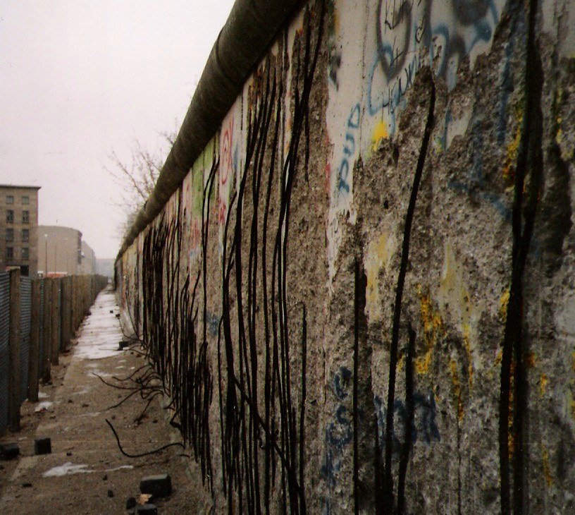 A view of the East side of the Berlin Wall, taken in 1990 (after the border was opened). The graffiti seen in the photo would date from after the border was opened. Most sections of the Berlin Wall were damaged by both local residents and tourists during the period after the wall was opened, either to hasten the removal of the walls or in order to obtain souvenirs.